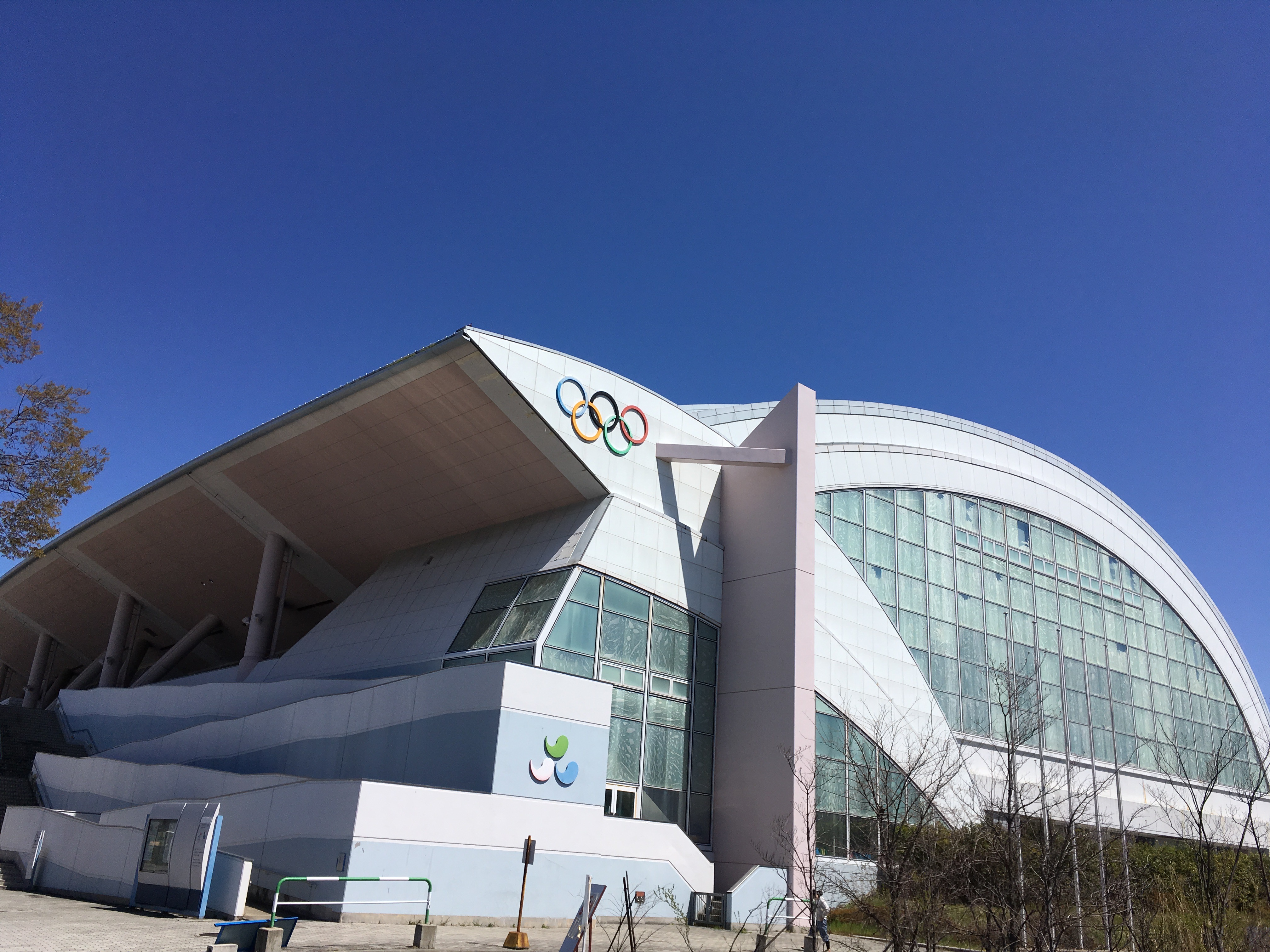 This is a photo of the southwest corner of the Aqua Wing, the ice hockey B venue during the 1998 Winter Olympics.